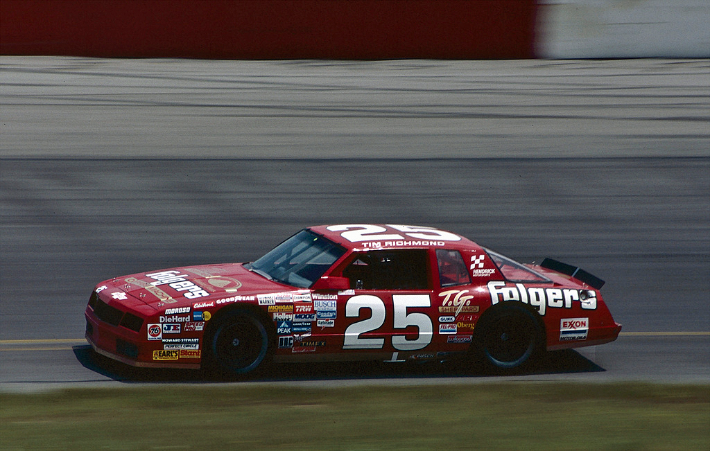 Tim Richmond driving the No. 25 Folgers Coffee Chevrolet Monte Carlo for Hendrick Motorsports.